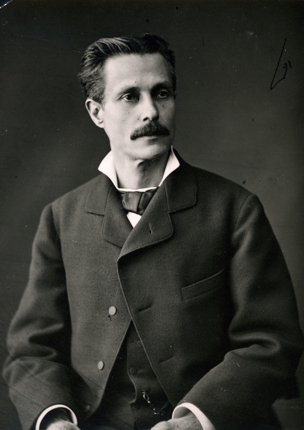 Francesc Gumà i Ferran, sponsor of the Valls-Vilanova-Barcelona railway line.